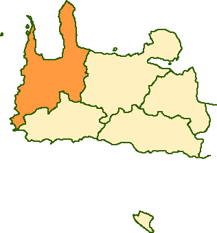 Map of Kissamos province, Crete